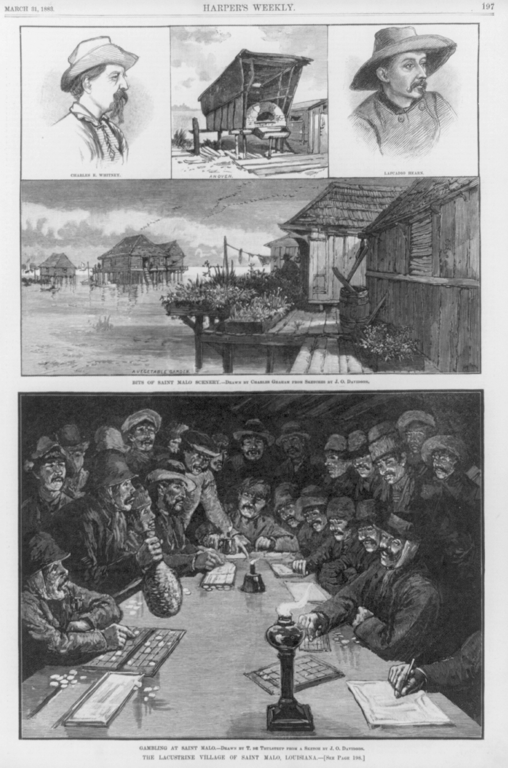 Views of Saint Malo, Louisiana, 1883, with portraits of vistors Lafcadio Hearn and Charles E. Whitney. The Lacustrine village of Saint Malo, Louisiana. 1. Charles E. Whitney; 2. An (outdoor) oven; 3. Lafcadio Hearn; 4. A vegetable garden (on pier); 5. Gambling on Saint Malo